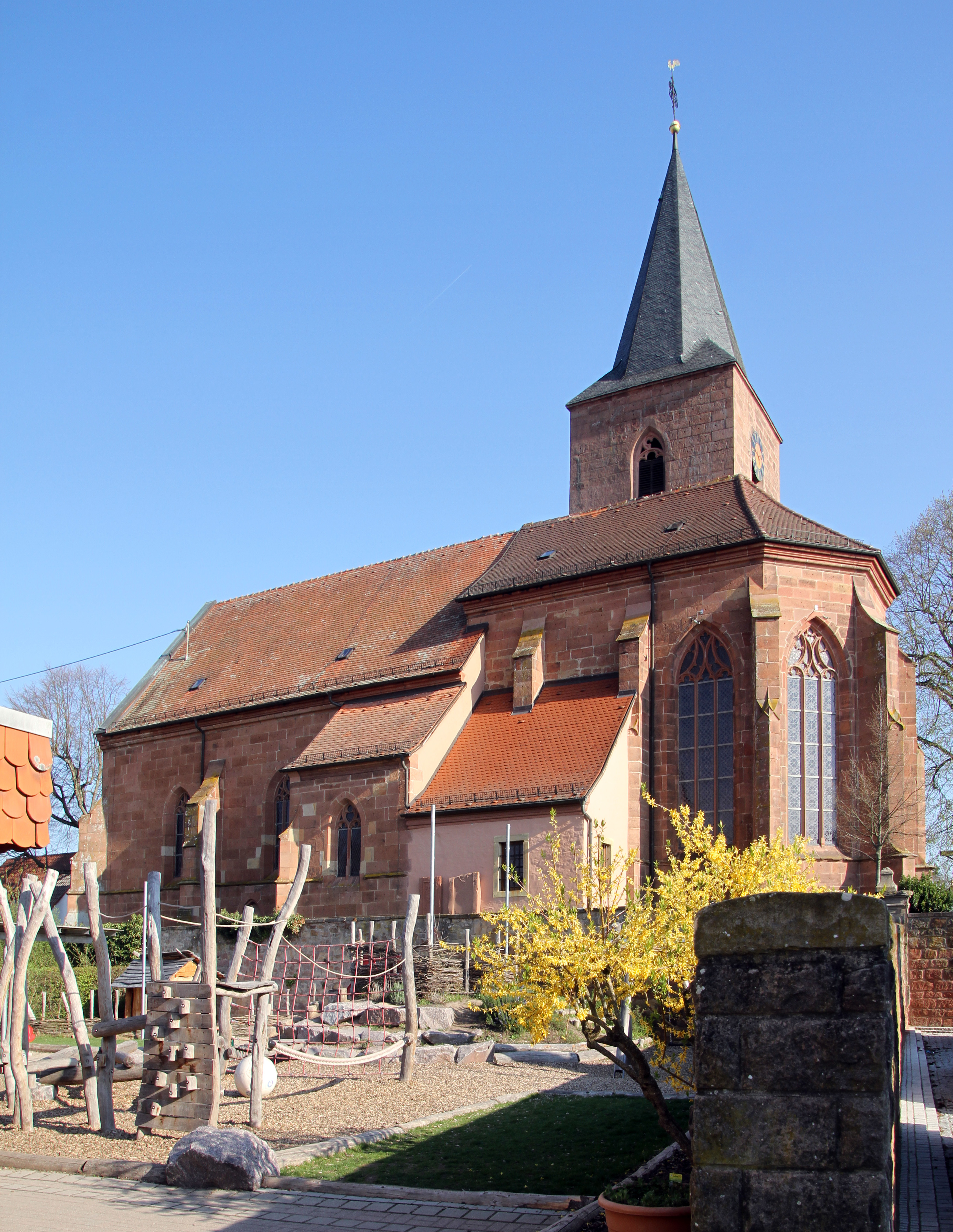 Church of Saint Michael in Rohrbach.